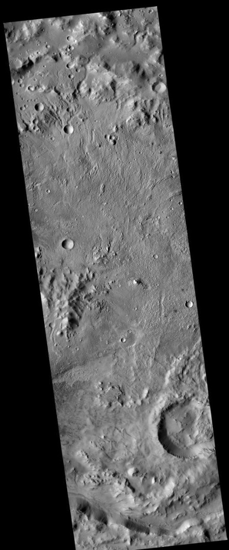 Peridier Crater, as seen by ctx